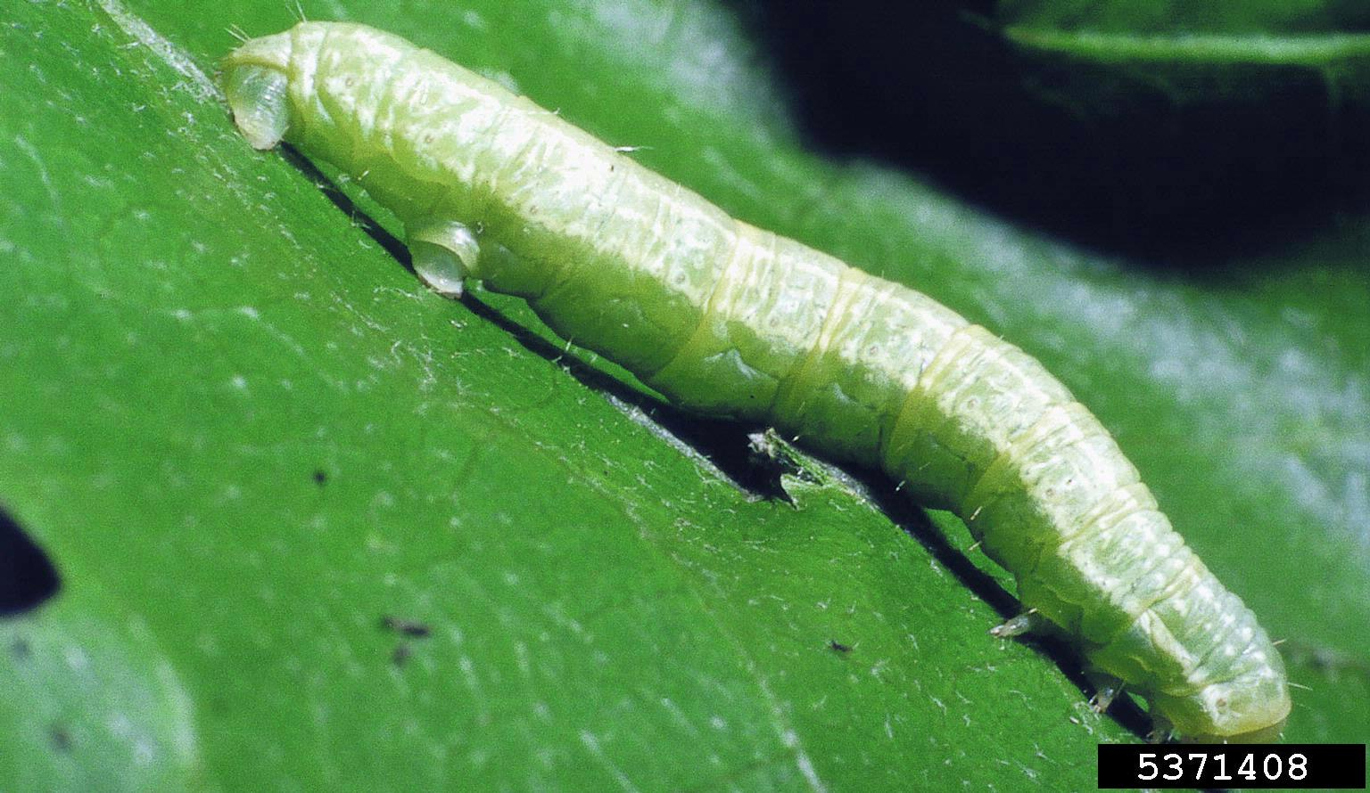 Operophtera brumata larva